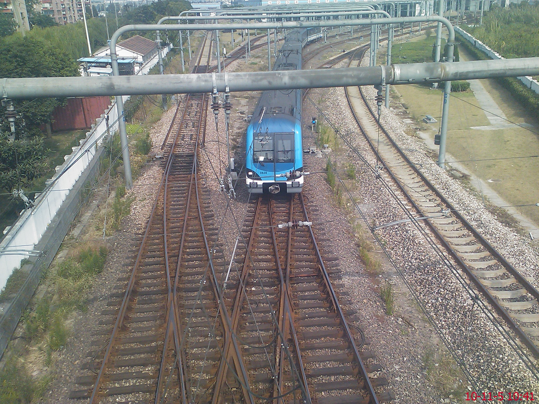 Train of Shmetro Line 8, type AC-07中文（中国大陆）: 上海轨道交通8号线AC-07型列车